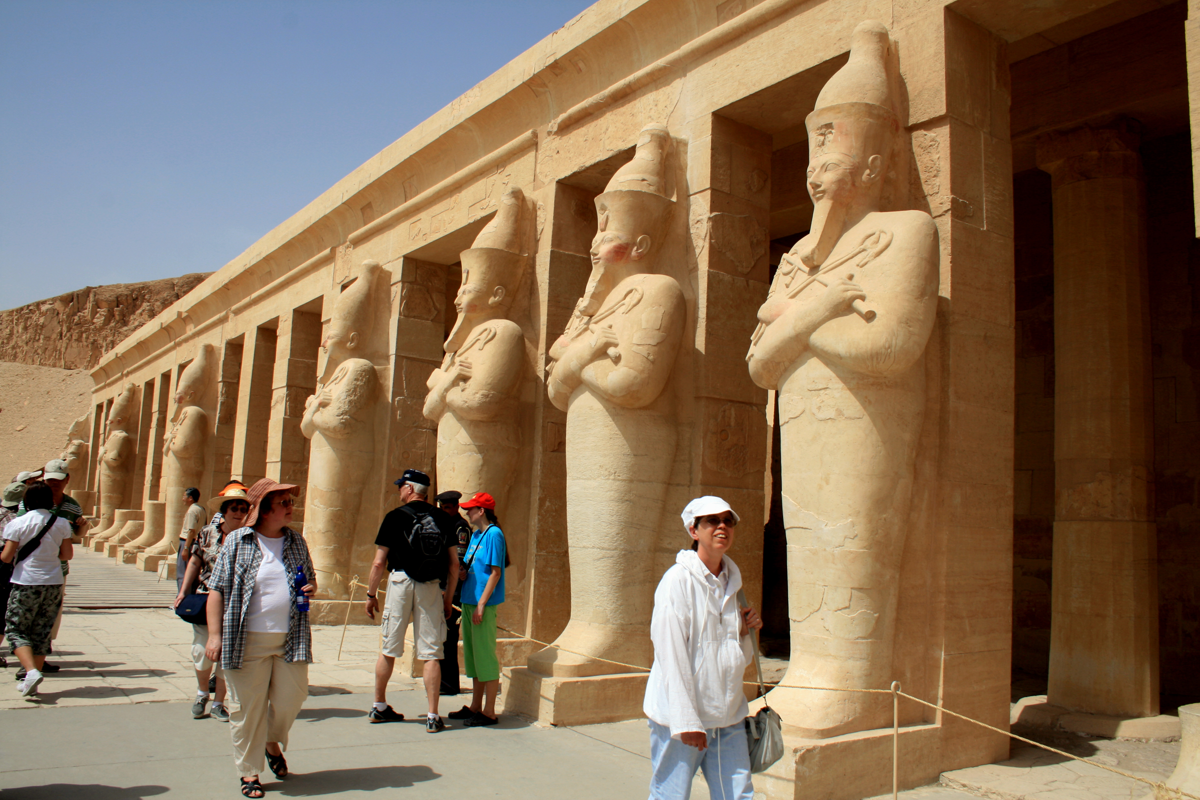 View on left part of Mortuary Temple of Hatshepsut near Luxor, Egypt